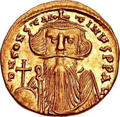 Constans II. AV Solidus (19mm, 4.39 g, 6h). Constantinople mint, 3rd officina. Crowned and draped facing bust, holding globus cruciger.